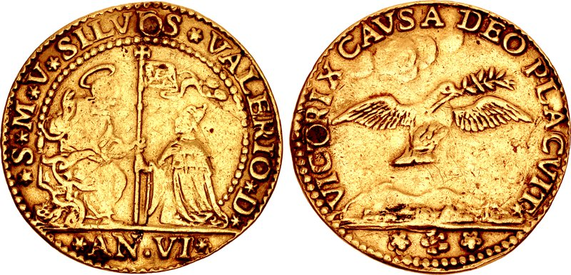 ITALY, Venezia (Venice). Silvestro Valiero. 1694-1700. AV Ocella da 4 Zecchini (36.5mm, 12.73 g, 3h). Dated year 6 (1699). St. Mark seated right, presenting banner to kneeling Doge / Dove of Peace. CNI VIII 131 var. (star dividing AN VI). VF, holed and plugged. Rare. This issue was struck to commemorate the Peace of Carlowitz, a 1699 treaty between the Ottomans and the Holy League (Austria, Poland, and Venice). It marked an end to the conflicts of the Austro-Ottoman War (1683-1697).